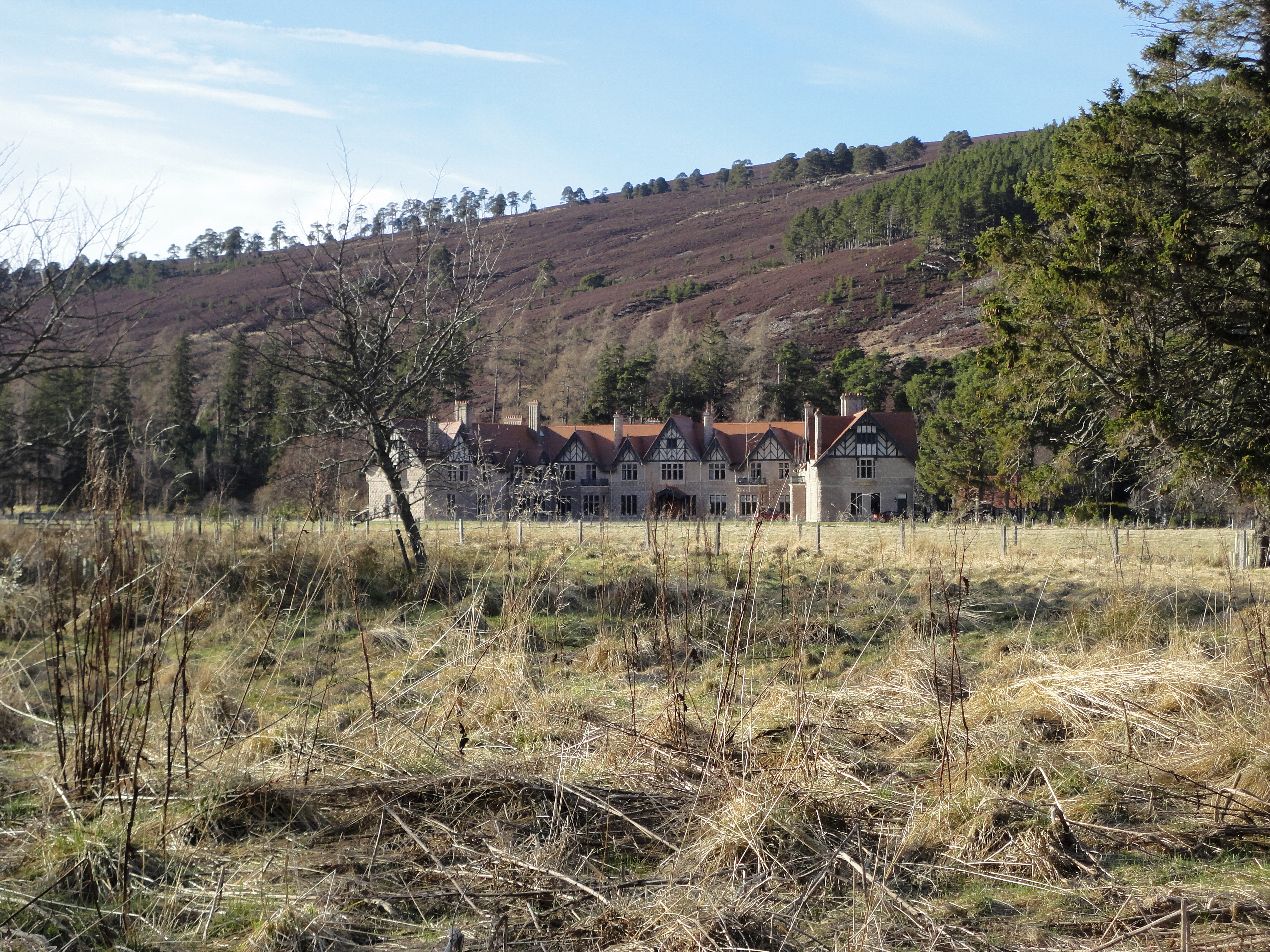 Mar Lodge (located on the Mar Lodge Estate, Braemar)